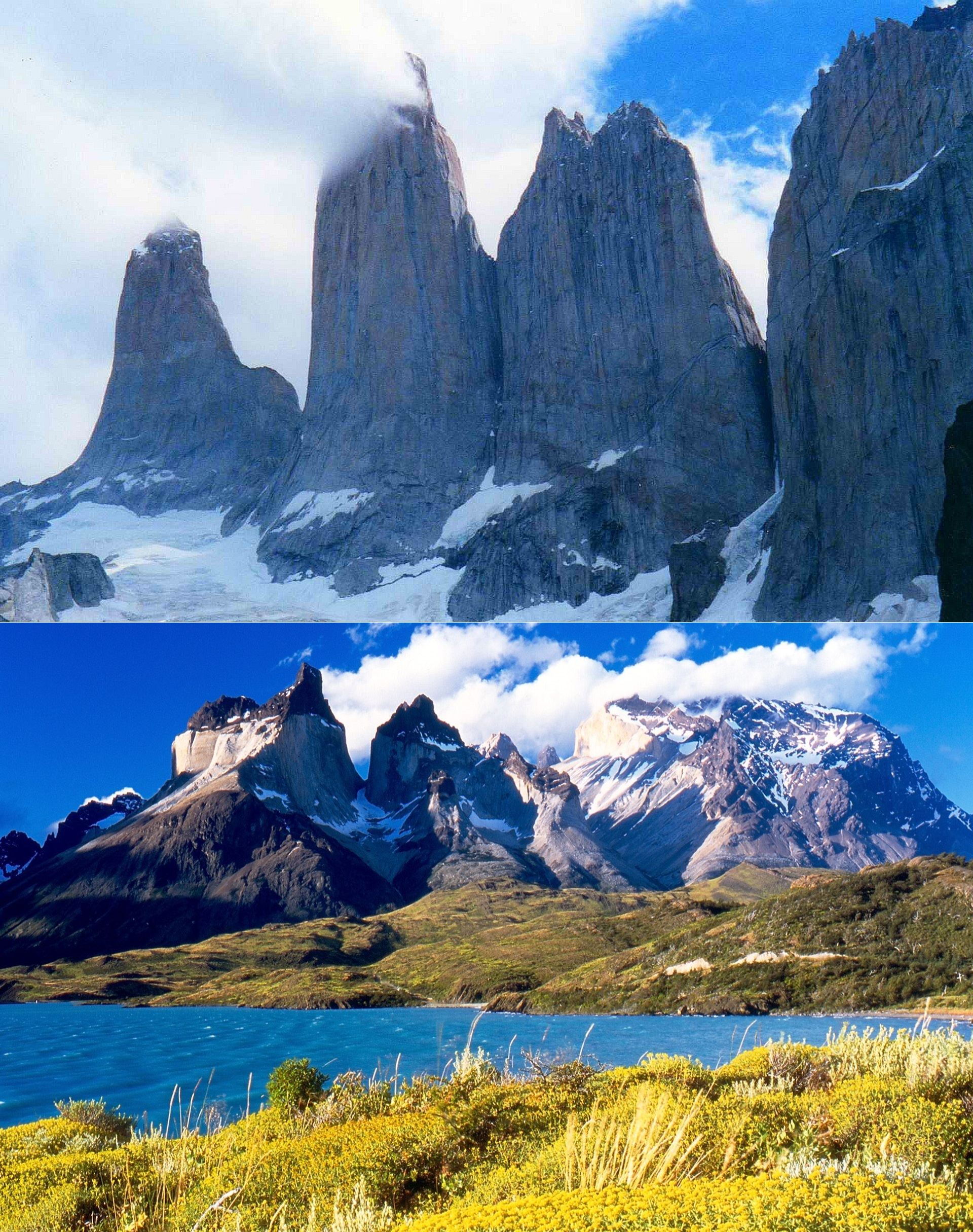 Towers of Paine (upper) and Paine Horns (lower); both are part of Cordillera Paine, in Magallanes Region, the most southern one of Chile.